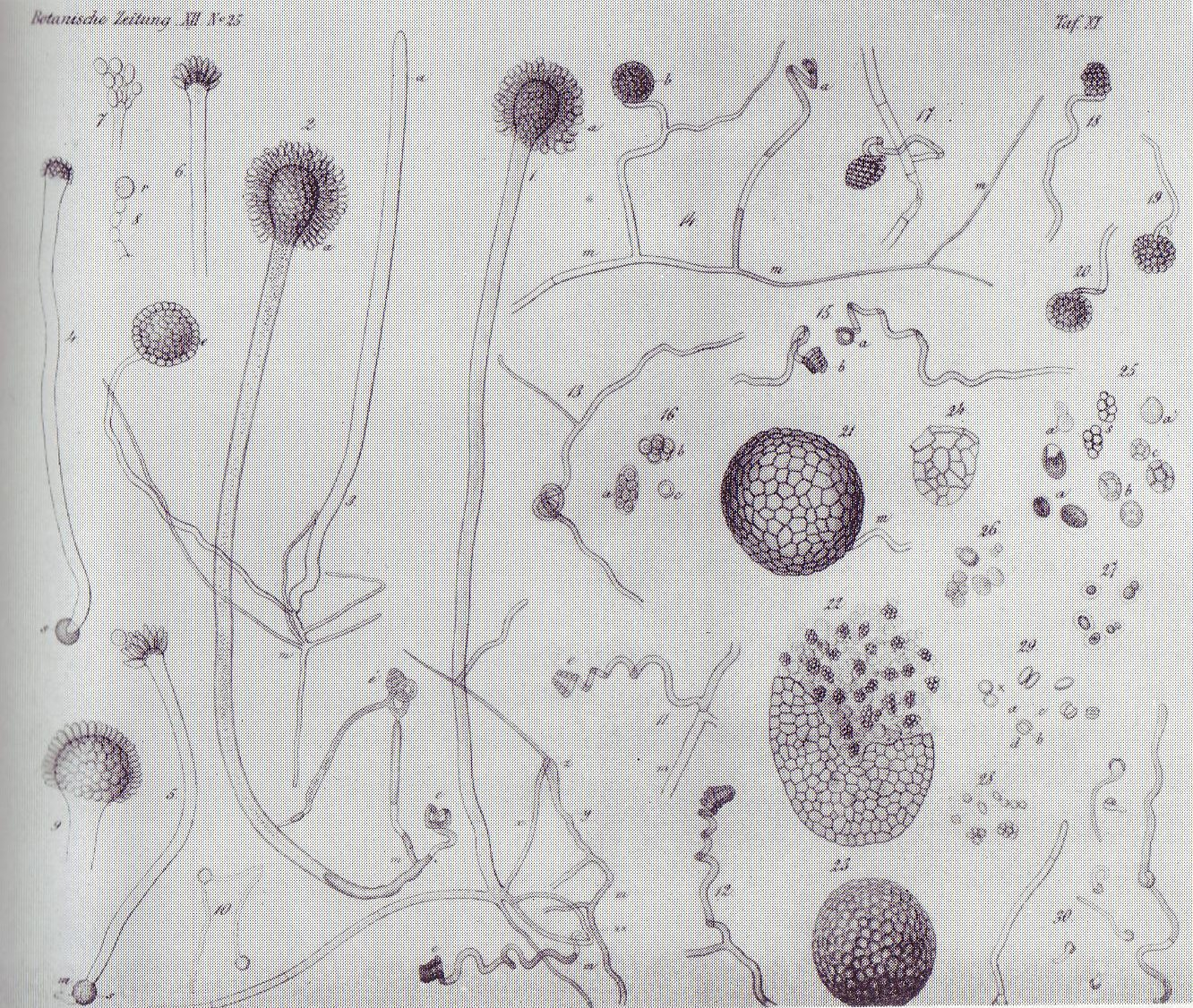 The development and relationship of Aspergillus glaucus and Eurotium